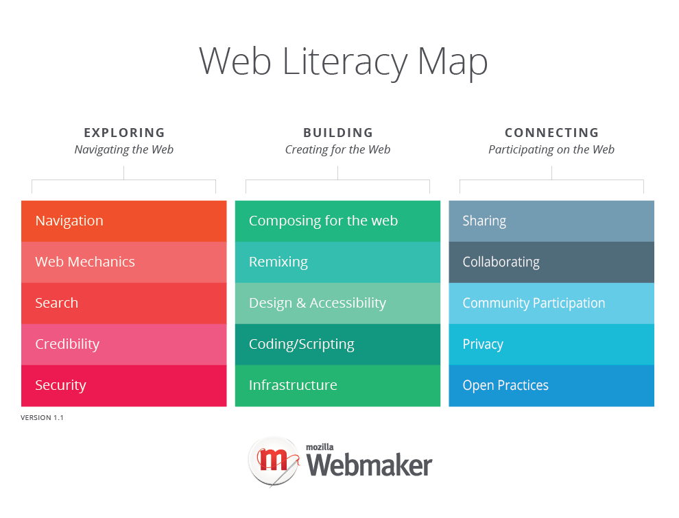 Mozilla's Web Literacy Map, created by a community of stakeholders.